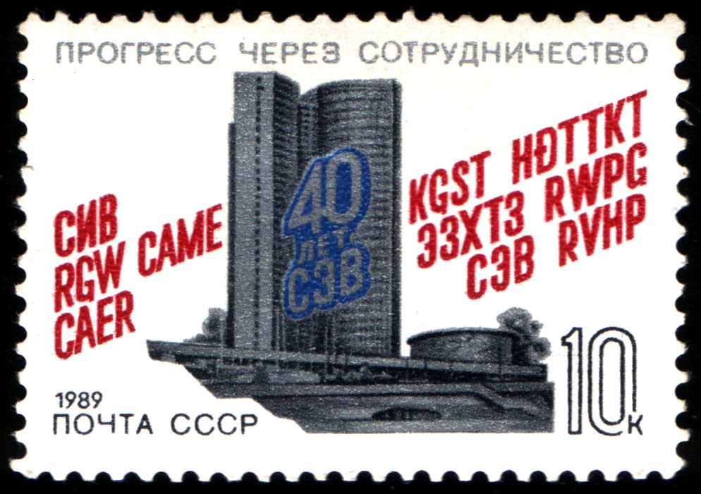 Stamp of USSR, 40th Anniversary of Comecon (Council for Mutual Economic Assistance), 1989. Comecon Building in Moscow (erected in 1969). CPA #6039.